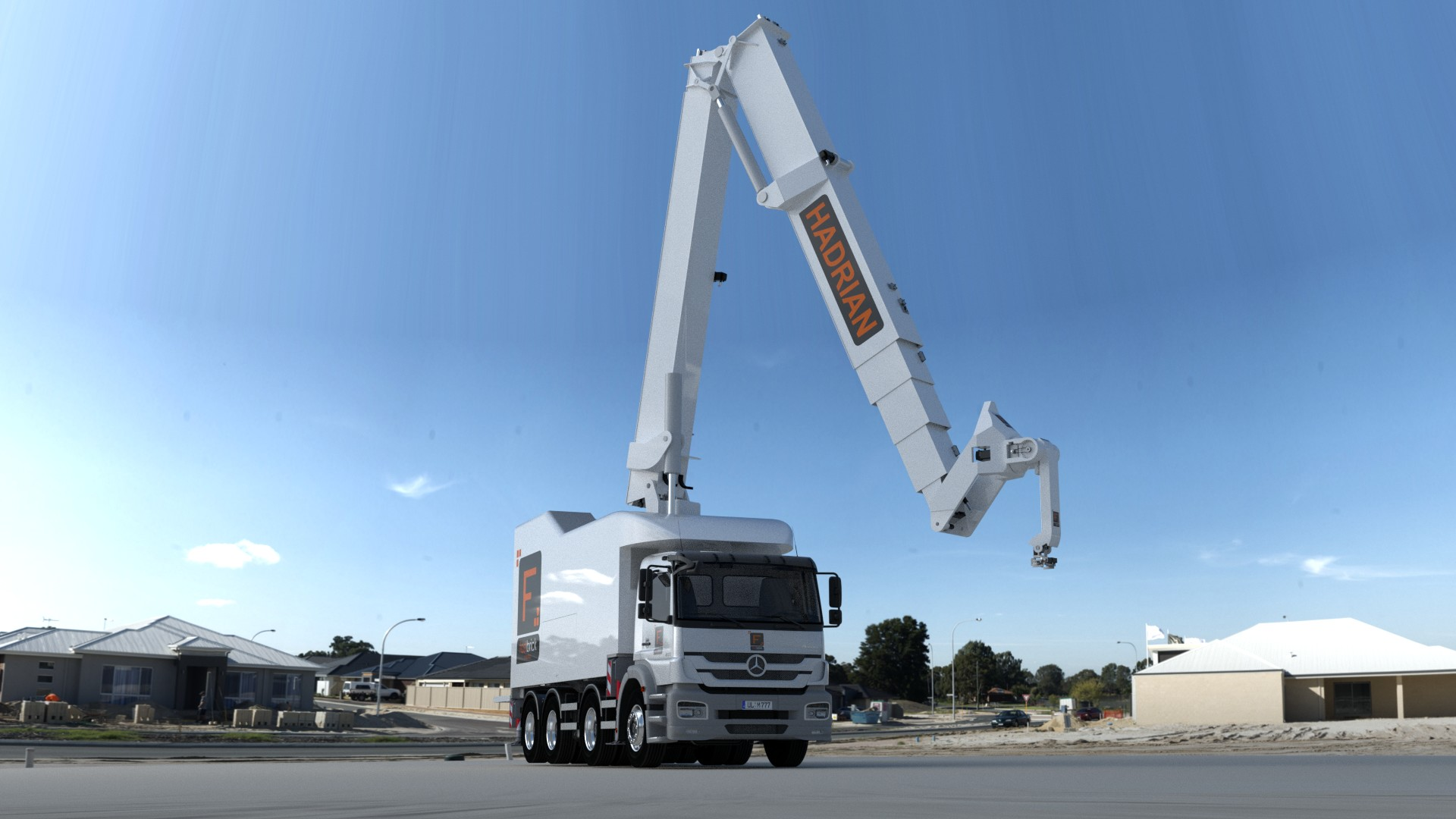 Hadrian X